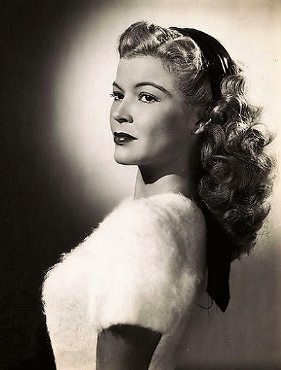 Helen Talbot, publicity photo